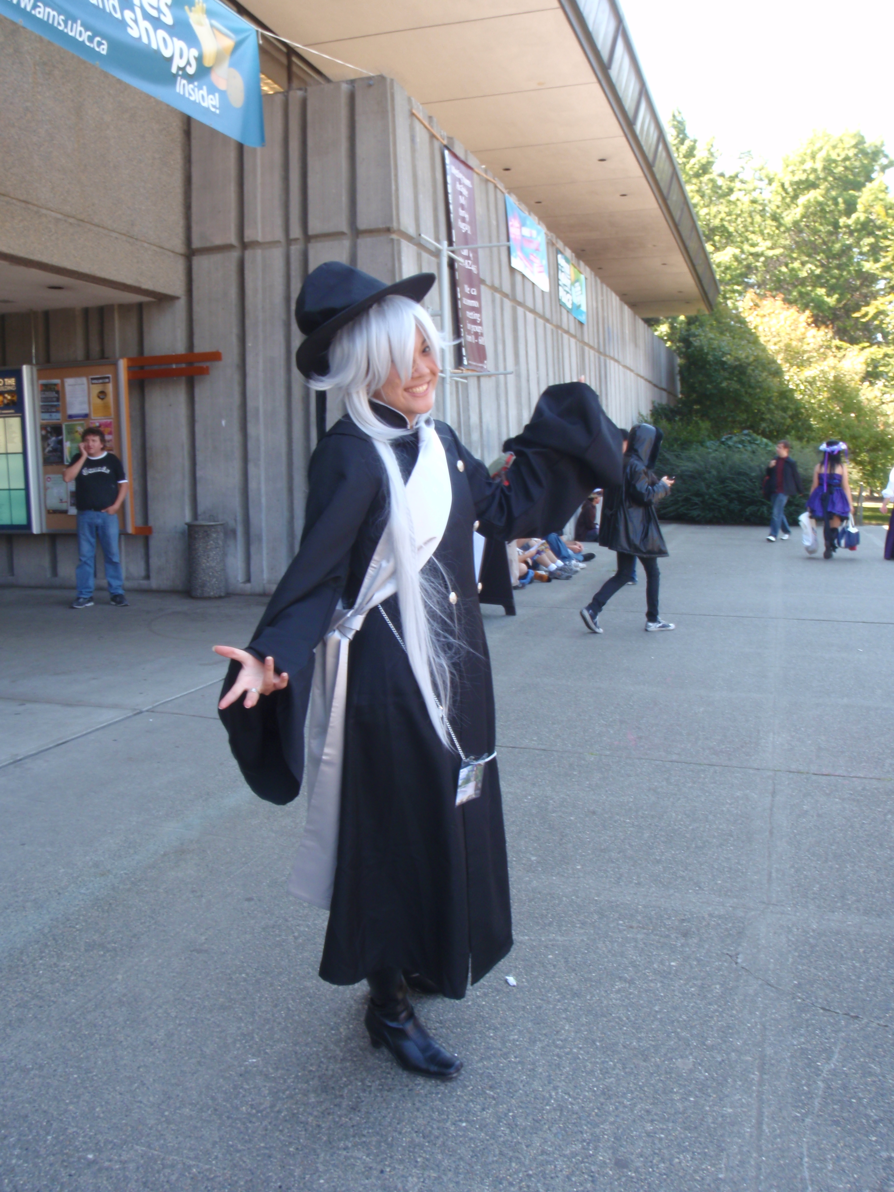 Undertaker cosplayers at Anime Evolution 2010.